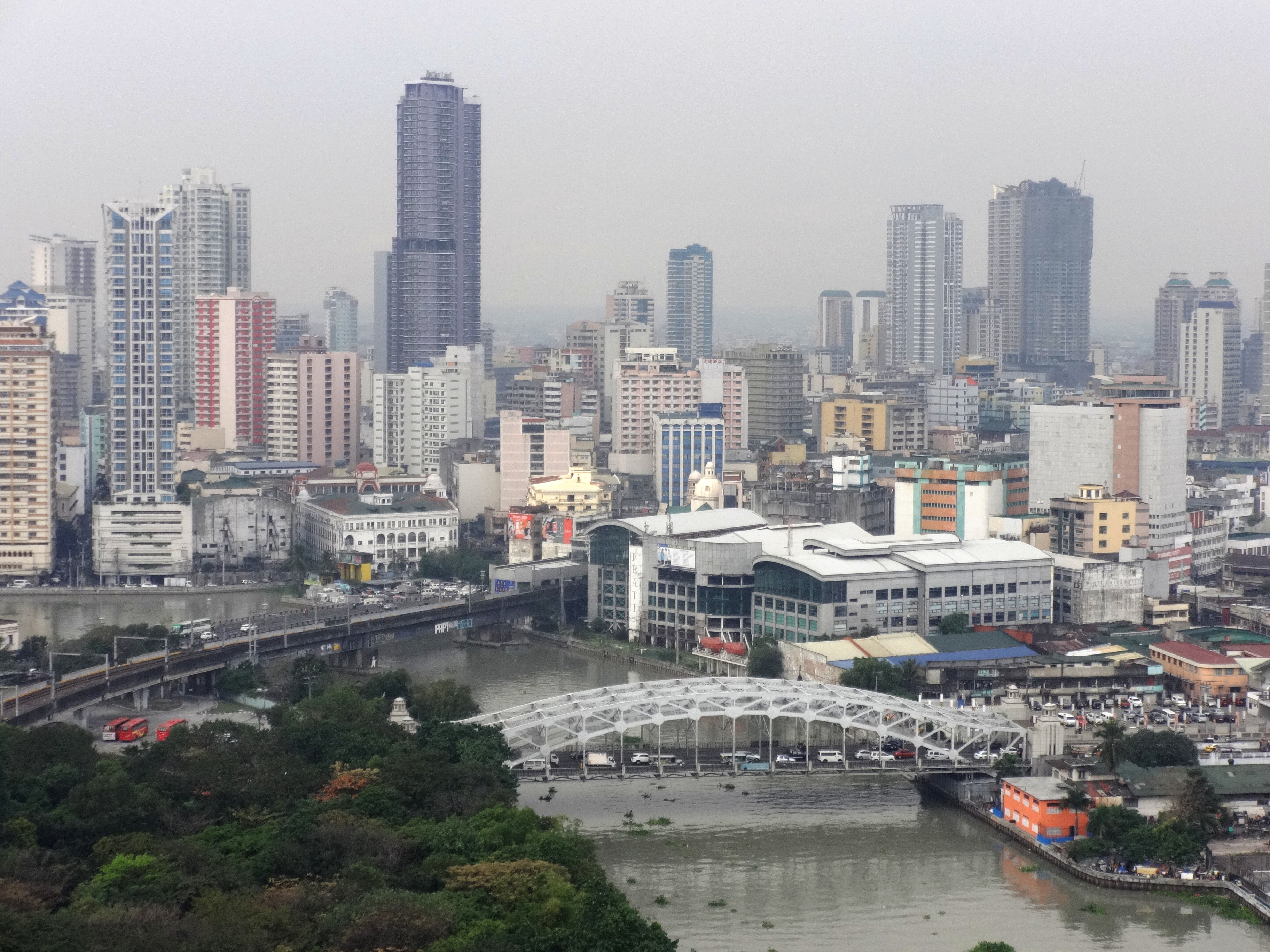 Old downtown area of Manila - with Binondo, Quiapo, Quezon Bridge, Pasig River and Arroceros area